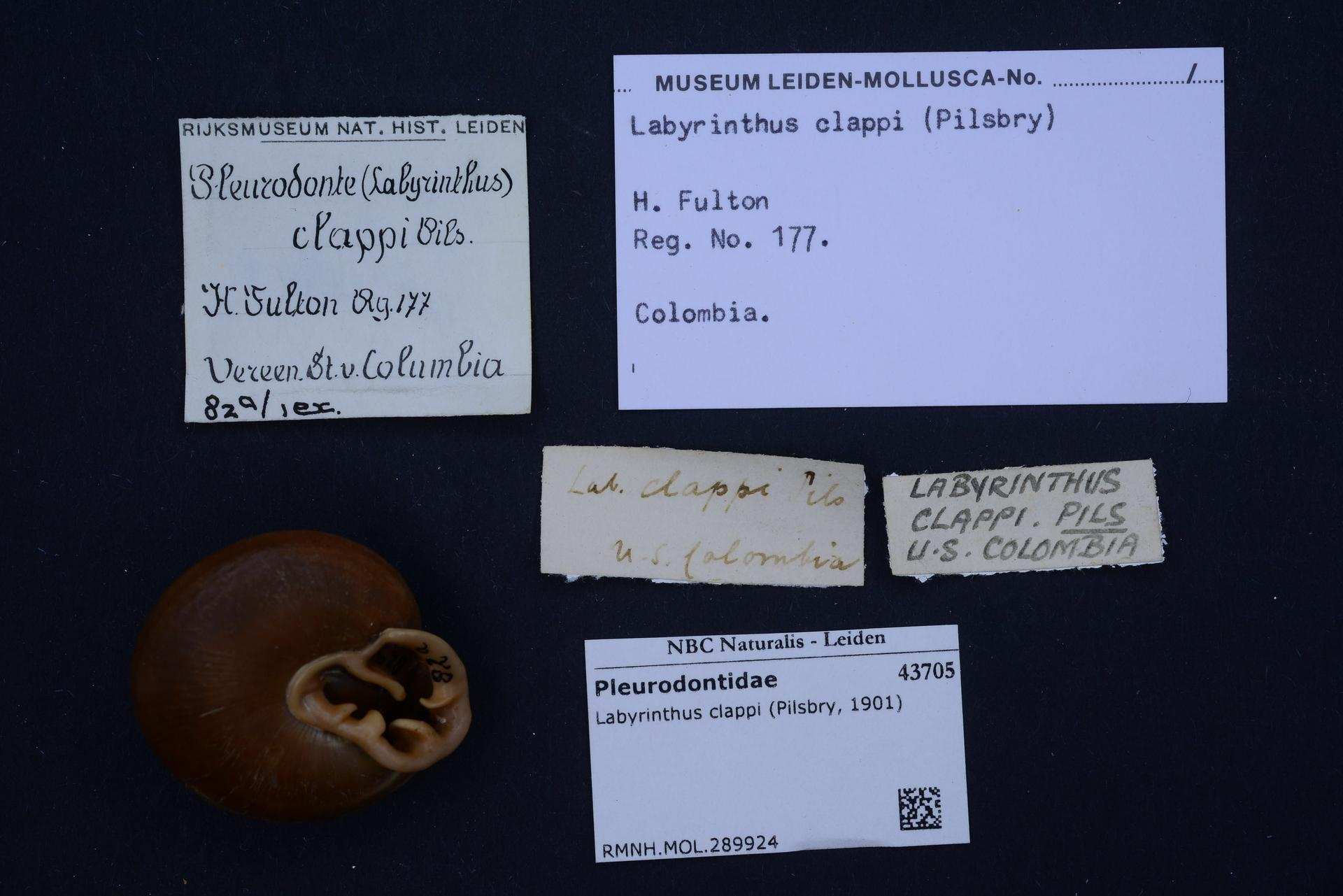 Labyrinthus clappi (Pilsbry, 1901)